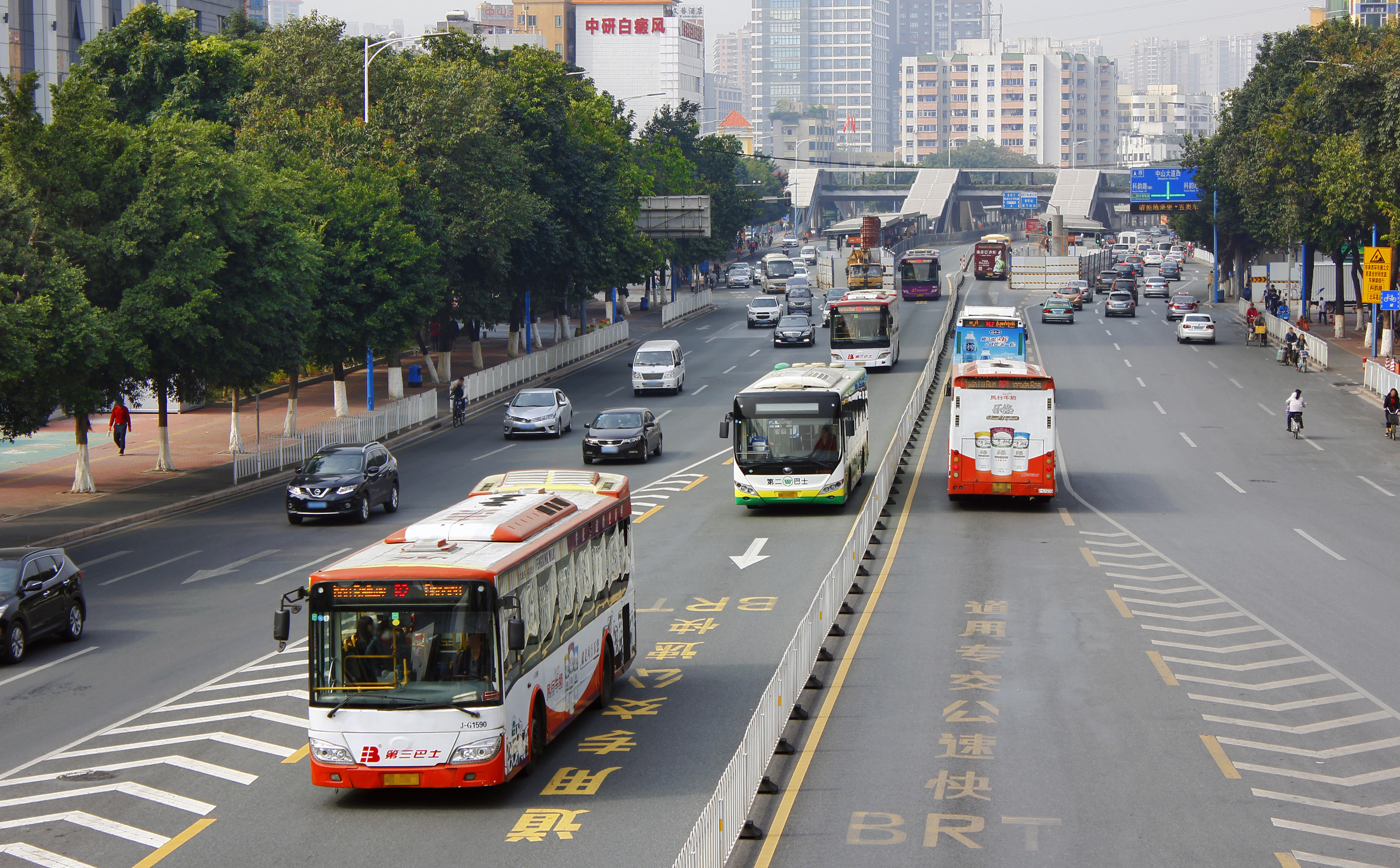 Guangzhou BRT corridor near Tangdong Station